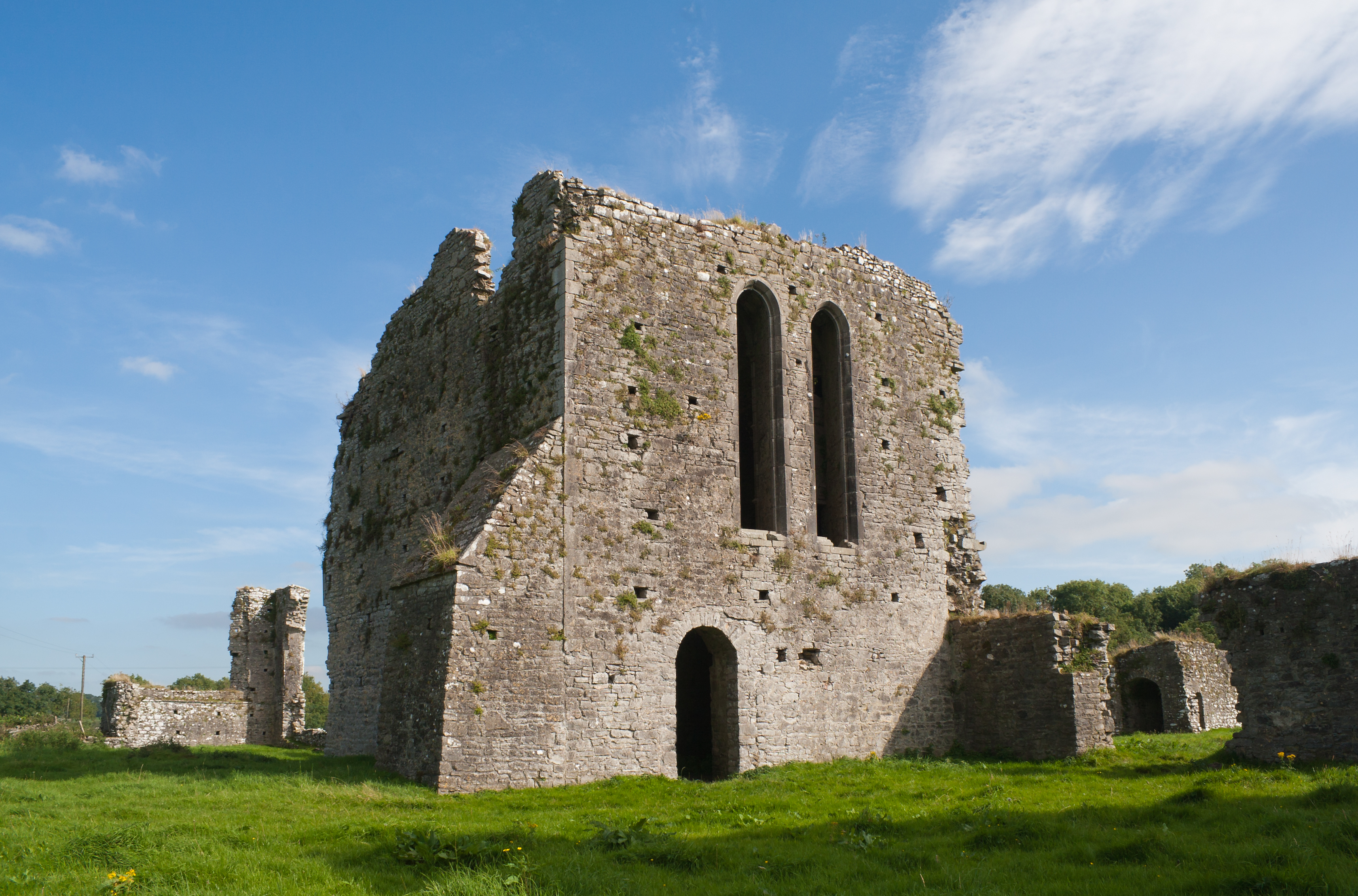 North-west view of the church and the belfry tower. At the left the remaining ruins of the east wall of the choir are to be seen. Most of the intermediate walls, north and south of the church, are not preserved.